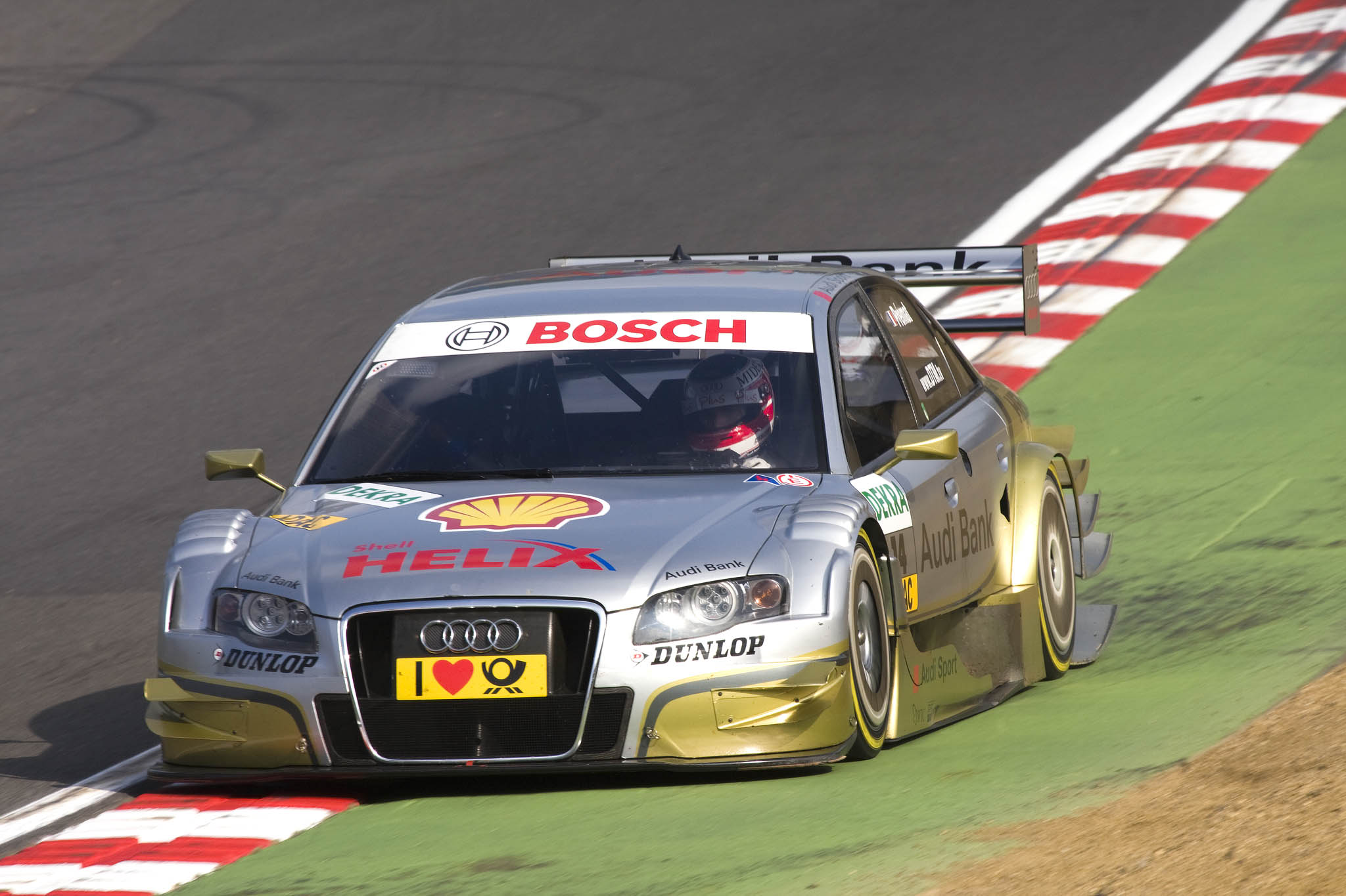 DTM Round at Brands Hatch 2008 Bottom of Paddock Hill.